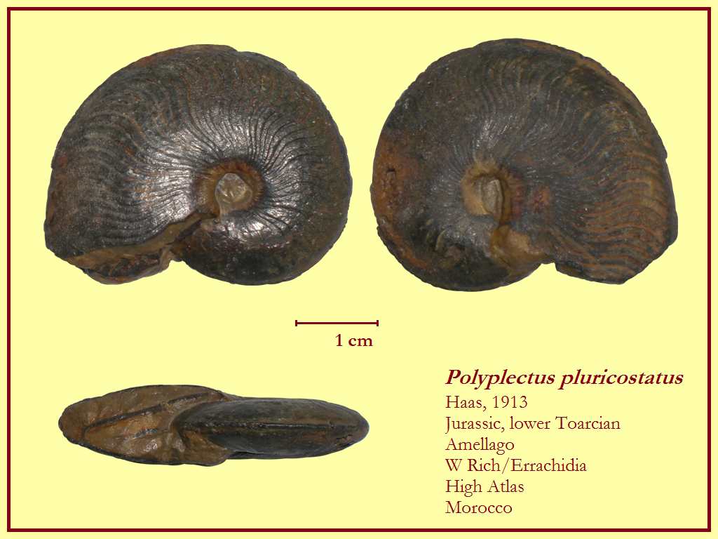 Polyplectus pluricostatus from Morocco. From personal collection of author.